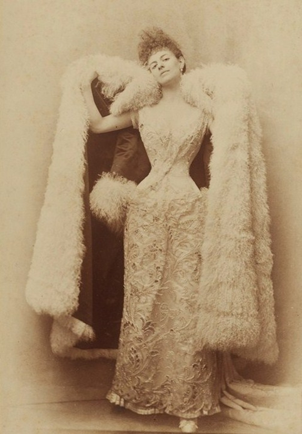 Élisabeth, Countess Greffulhe regularly ordered, notably from Charles Frederick Worth, sumptuous outfits that highlighted her splendid waist. Here we see her in a dress entirely covered with appliqués of blossoming branches and a long swansdown evening cloak lined with satin (Musée Galliera).